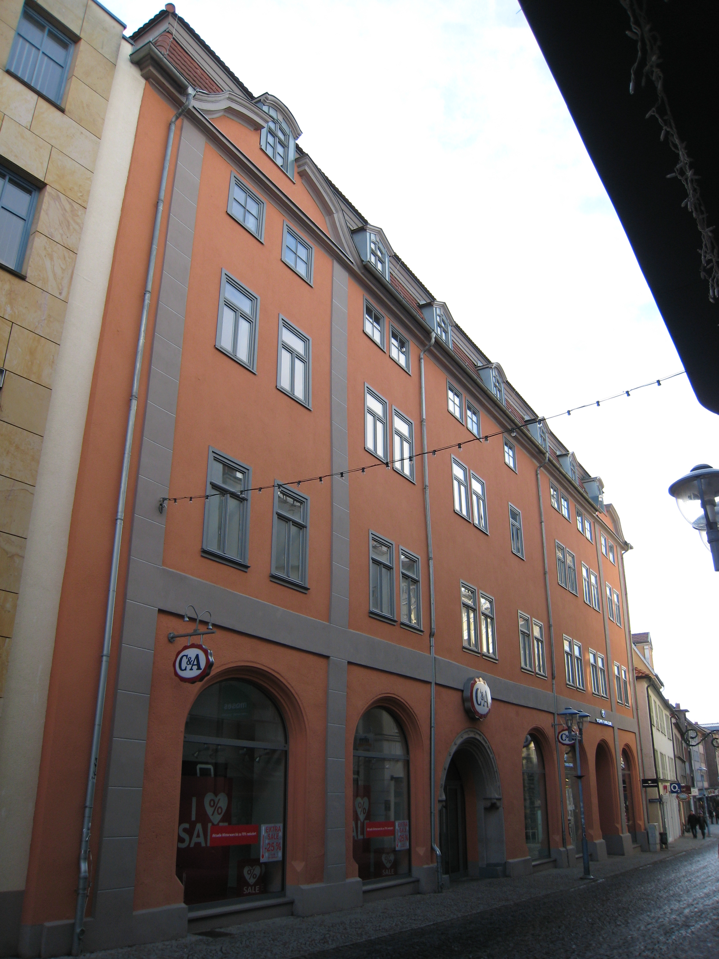 Former orphanage in Gotha, Erfurter Strasse 2